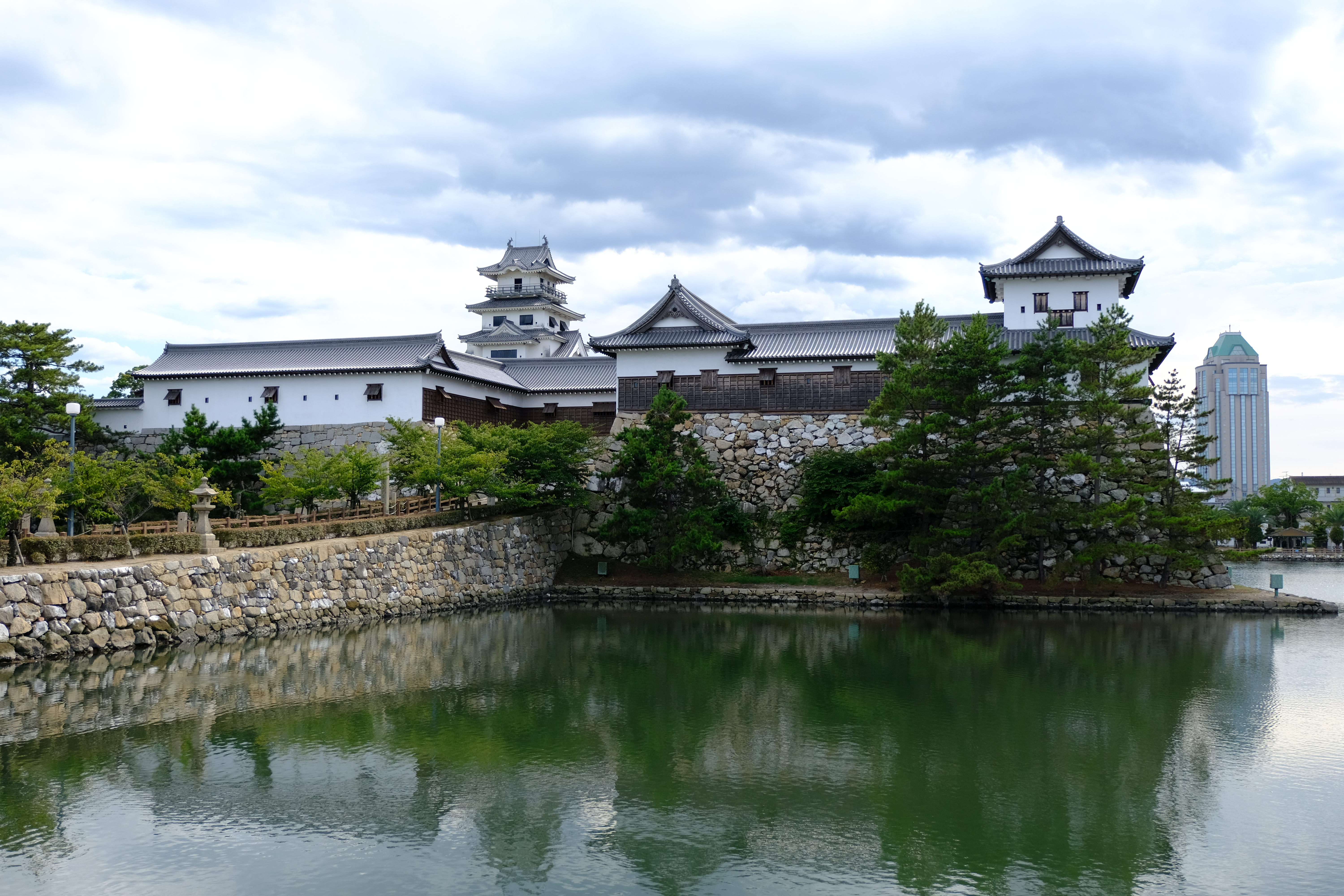 Imabari castle